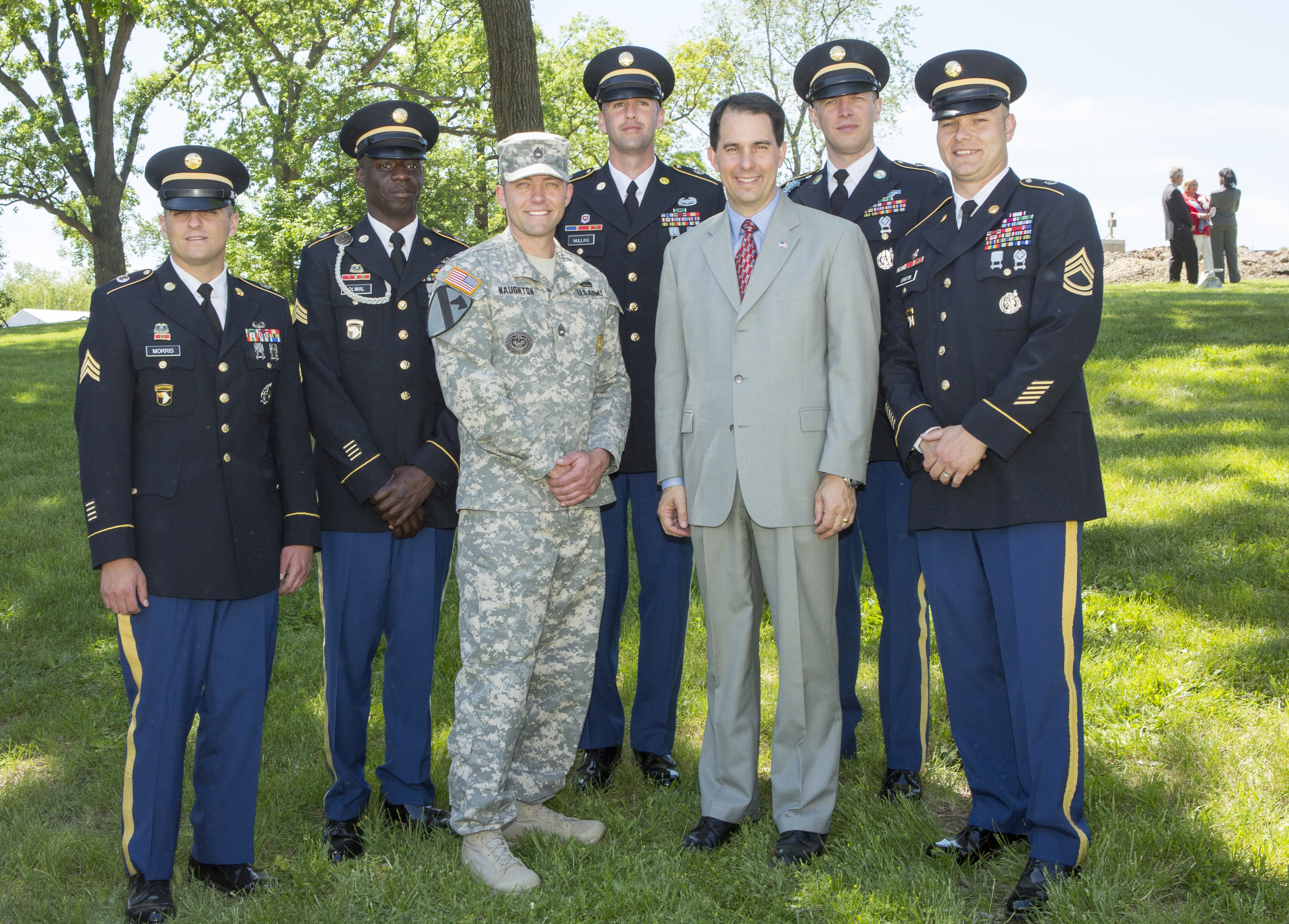 fisher house grounbreaking